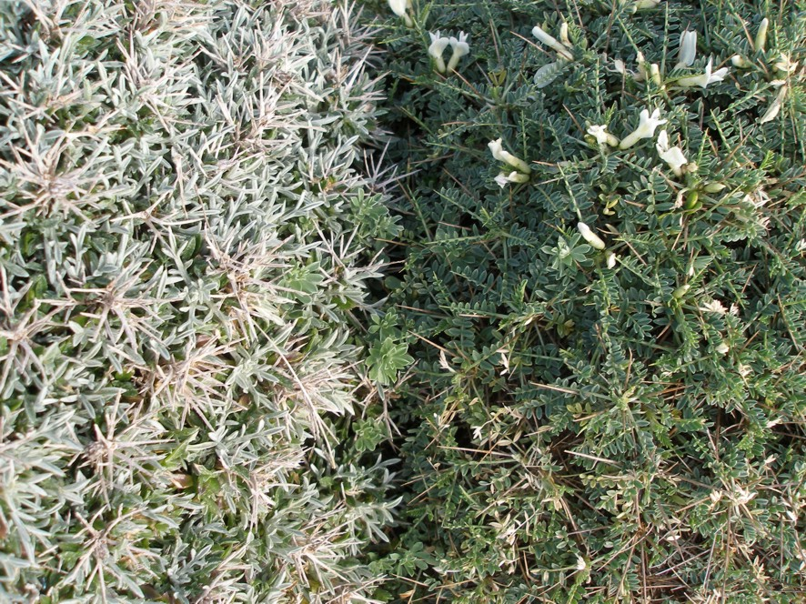 Centaurea horrida (at the left), Astragalus terracianoi (at the right)